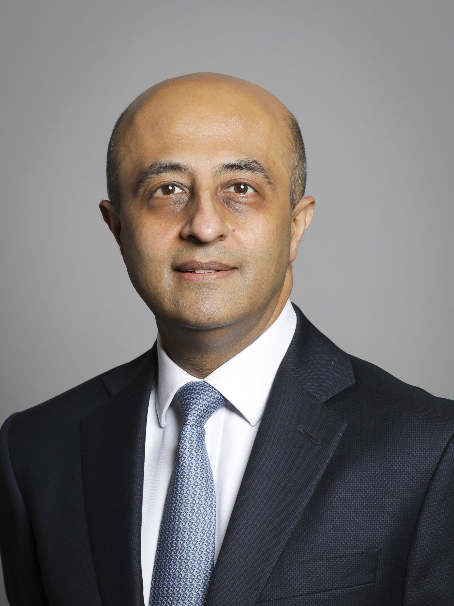 Official portrait of Lord Gadhia 3×4 portrait of Lord Gadhia